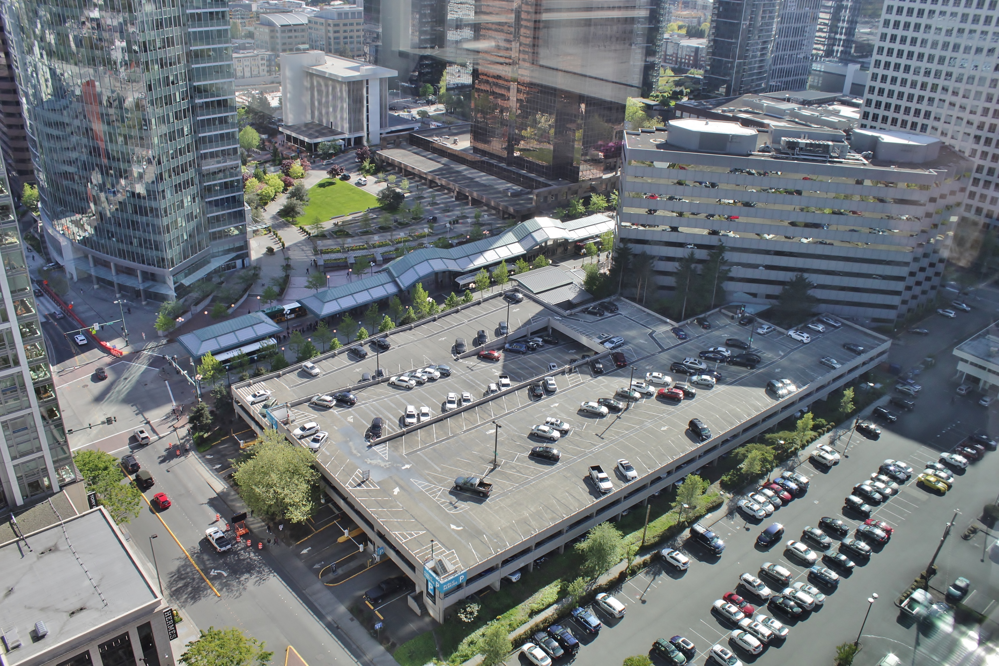 An overhead view of the Bellevue Transit Center and the adjacent Bellevue Corporate Center property, proposed as the site of Bellevue 600, as seen from The Bravern.